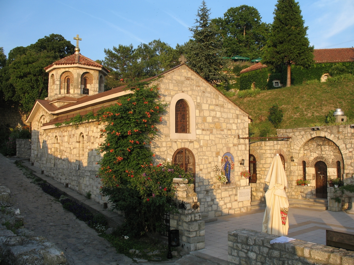 Church of Holy Petka in Belgrade fortress, Serbia.